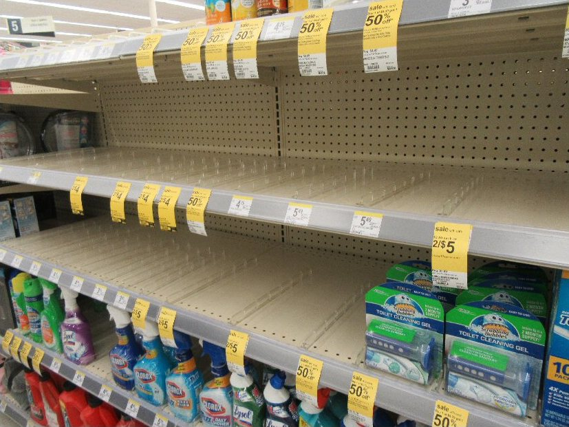 Hand sanitizers sold out in most drug stores.